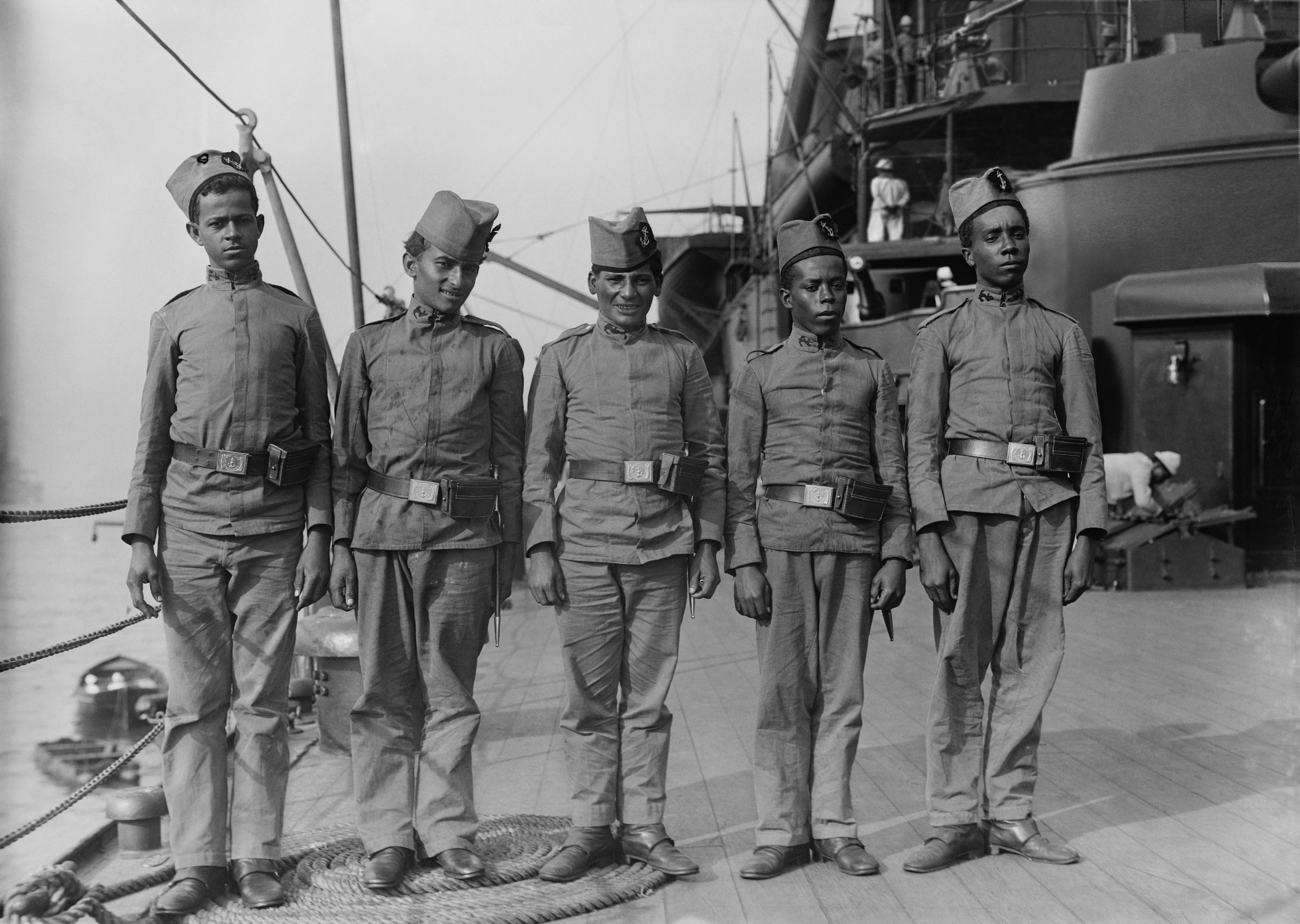 Sailors from Minas Geraes. Top right corner of photo has been reconstructed by Penyulap. See original for comparison. This reconstruction, however, may not be accurate. See [1].